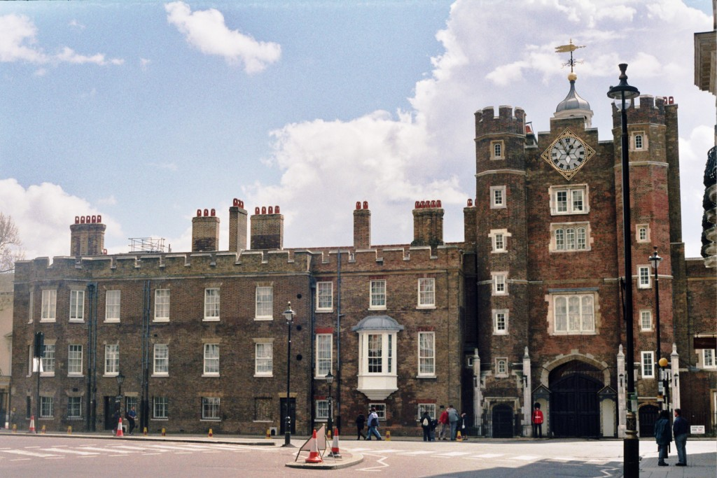 St James's Palace, Garden Walls, Marlborough Gate, Etc